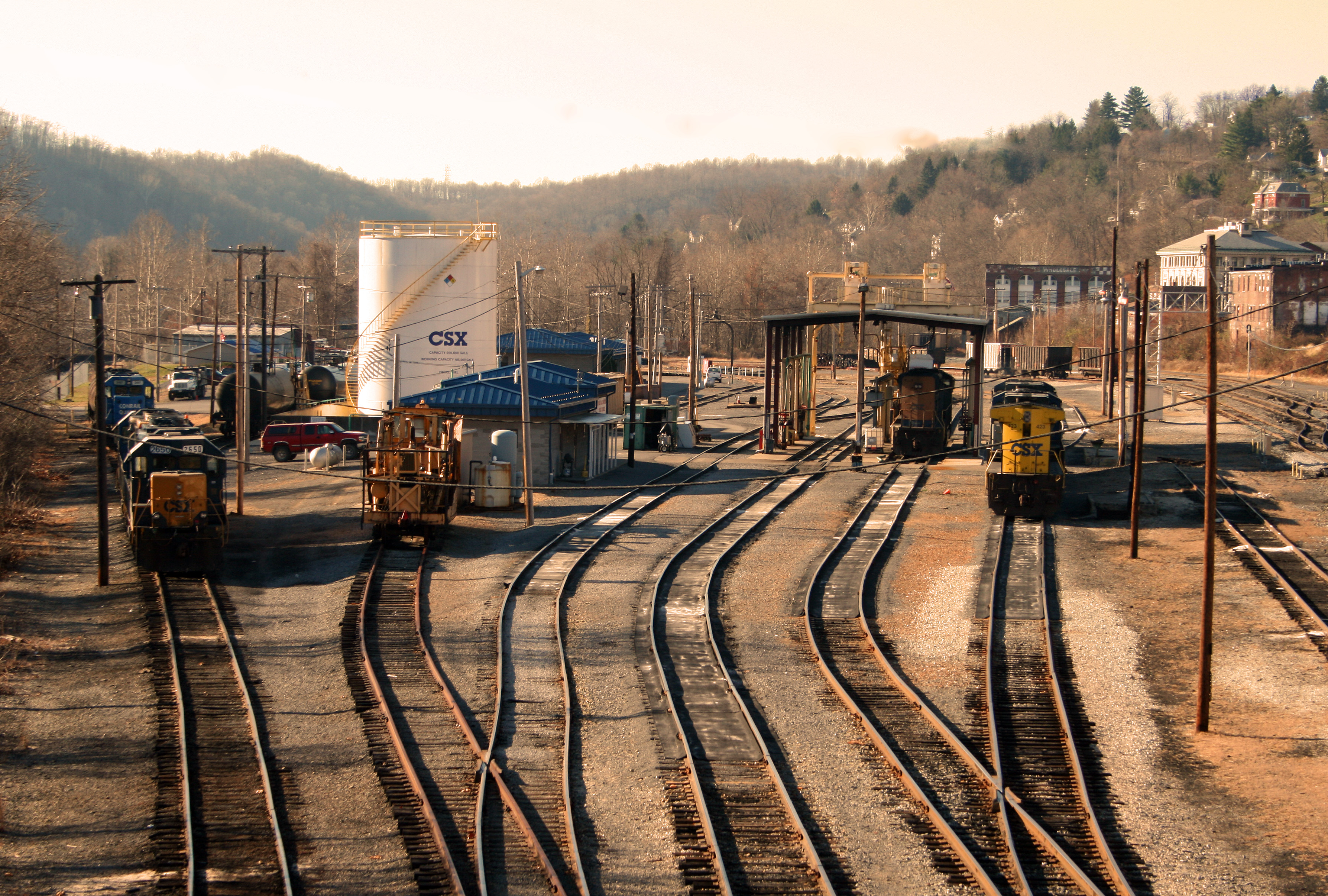 There wasn't much happening on this Saturday afternoon in the yard at Grafton, WV.